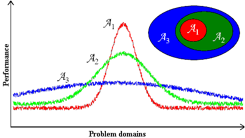 This is an intuitive, graphical explanation of the effects of the No Free Lunch Theorems in heuristic algorithms. Hopefully, it will be NPV-compliant. It is going to be used in the memetic algorithms article